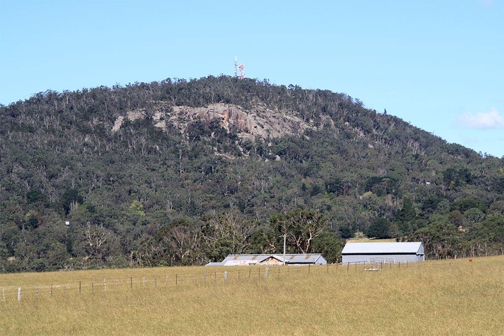 Western extremity of Mount Gibraltar NSW Australia seen from Welby NSW.